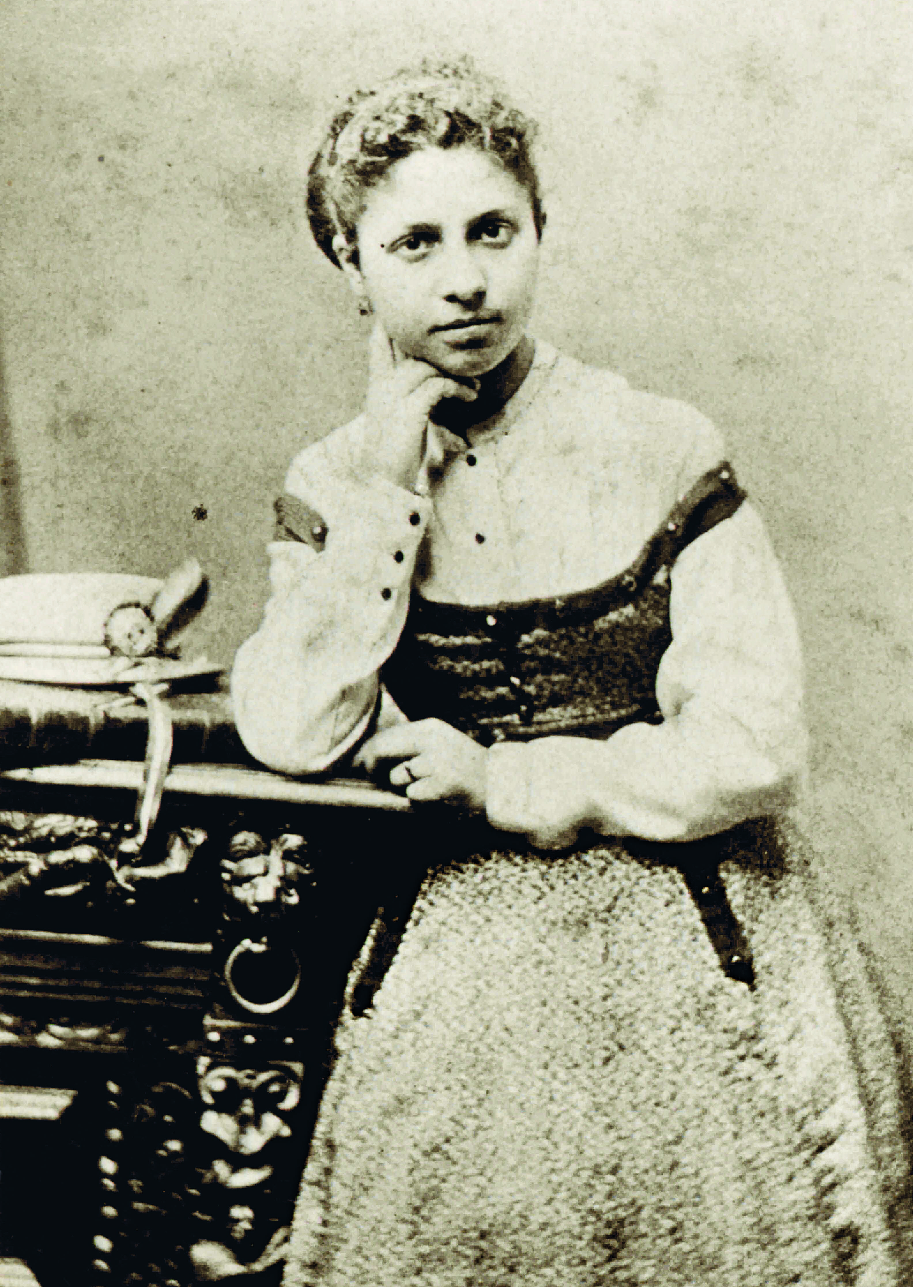 Lise Tréhot (1848-1922), French art model for french painter Pierre-Auguste Renoir during his early Salon period